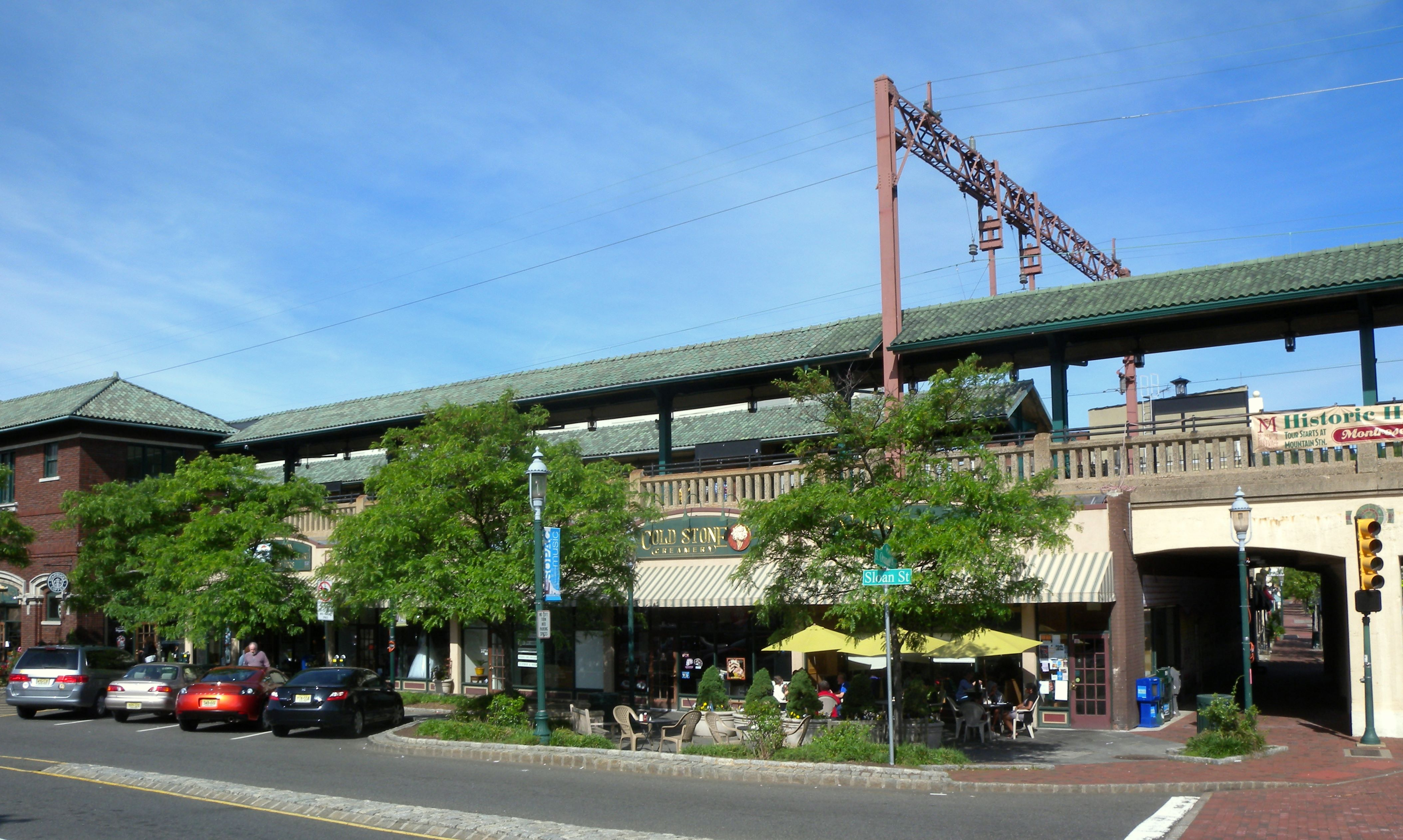 Looking west across Sloan St at South Orange station on a sunny morning.